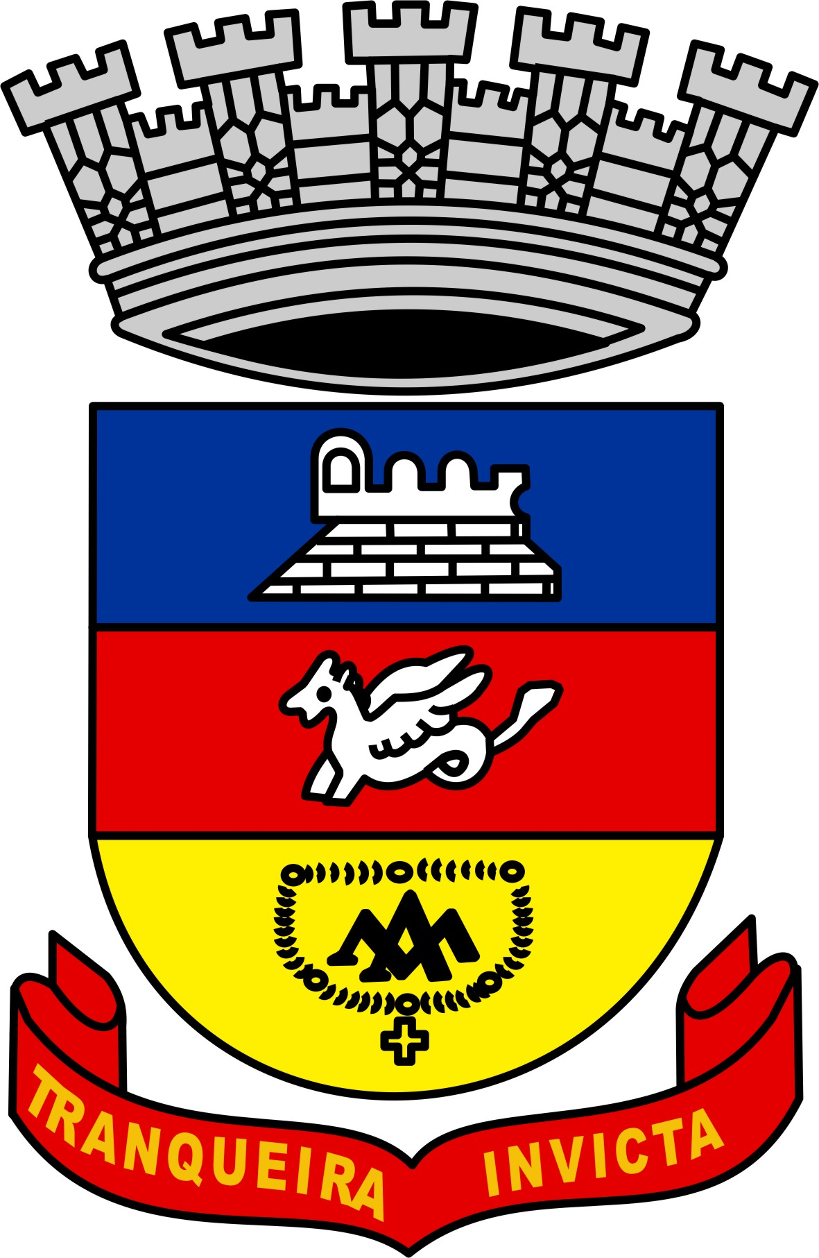 Coat of arms, Rio Pardo city - RS